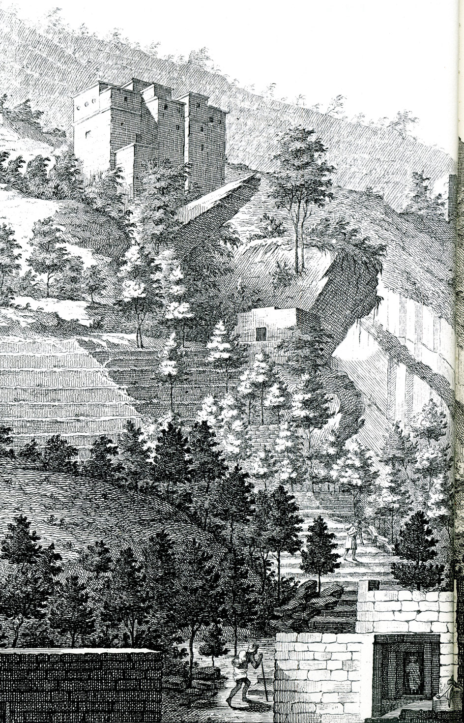 Coffeeplantation in Yemen. Drawing by Georg Wilhelm Baurenfeind (1728–1763), member of The Danish Arabia Expedition 1761–1767